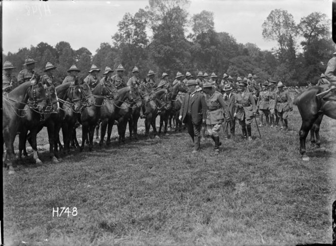 Prime Minister Massey and Sir Joseph Ward inspect the Otago Mounted Rifles, France. Royal New Zealand Returned and Services' Association :New Zealand official negatives, World War 1914-1918. Ref: 1/2-013351-G. Alexander Turnbull Library, Wellington, New Zealand. Photograph taken 3 July 1918.